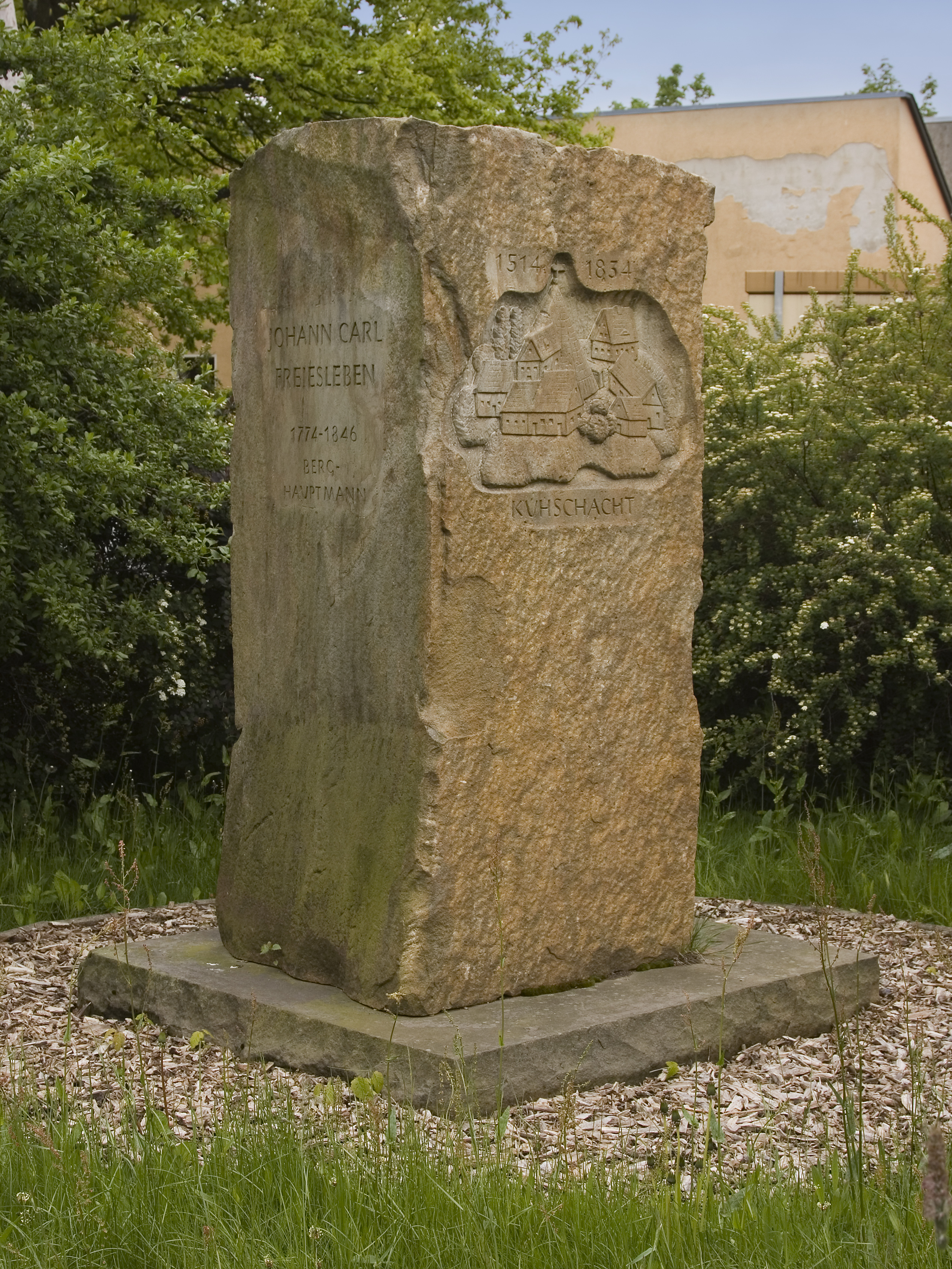 Freiberg, former mine "Kuhschacht", monument to Alexander von Humboldt and Johann Carl Freiesleben